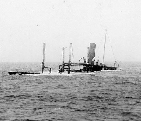 Photo #: NH 53696 USS Hector (Collier # 7) After part of the ship, photographed from her forward part, some time after she was wrecked off the U.S. Atlantic Coast on 14 July 1916.